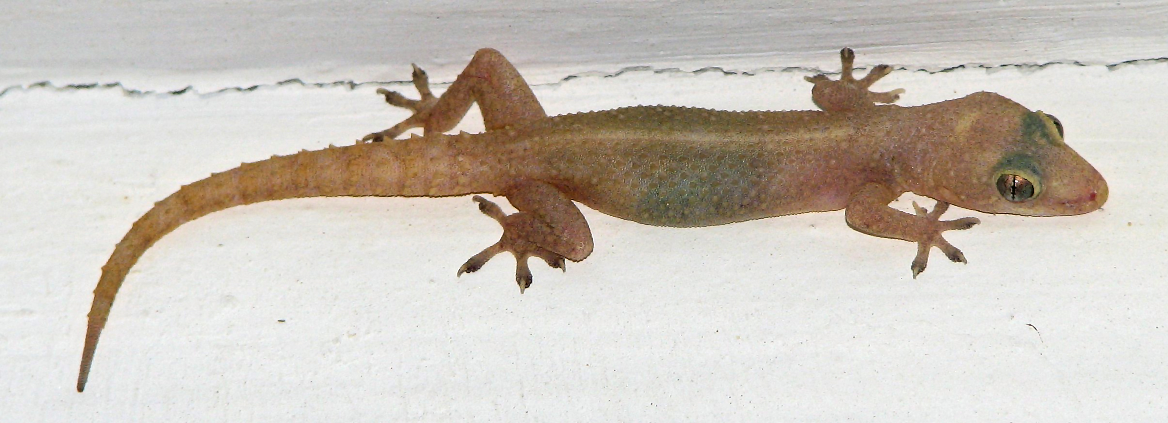 Common House Gecko (Hemidactylus frenatus), Photo taken from Kerala, India.